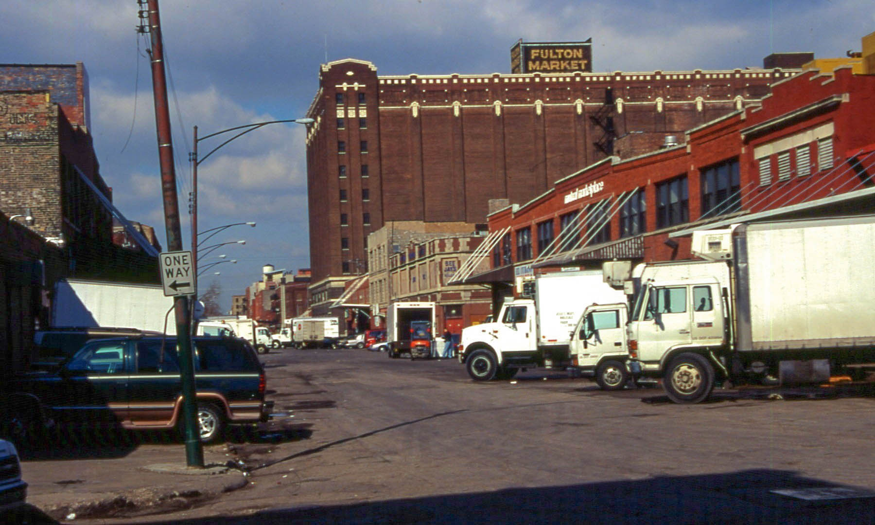 20020420 11 Fulton St. @ Peoria St. Chicago